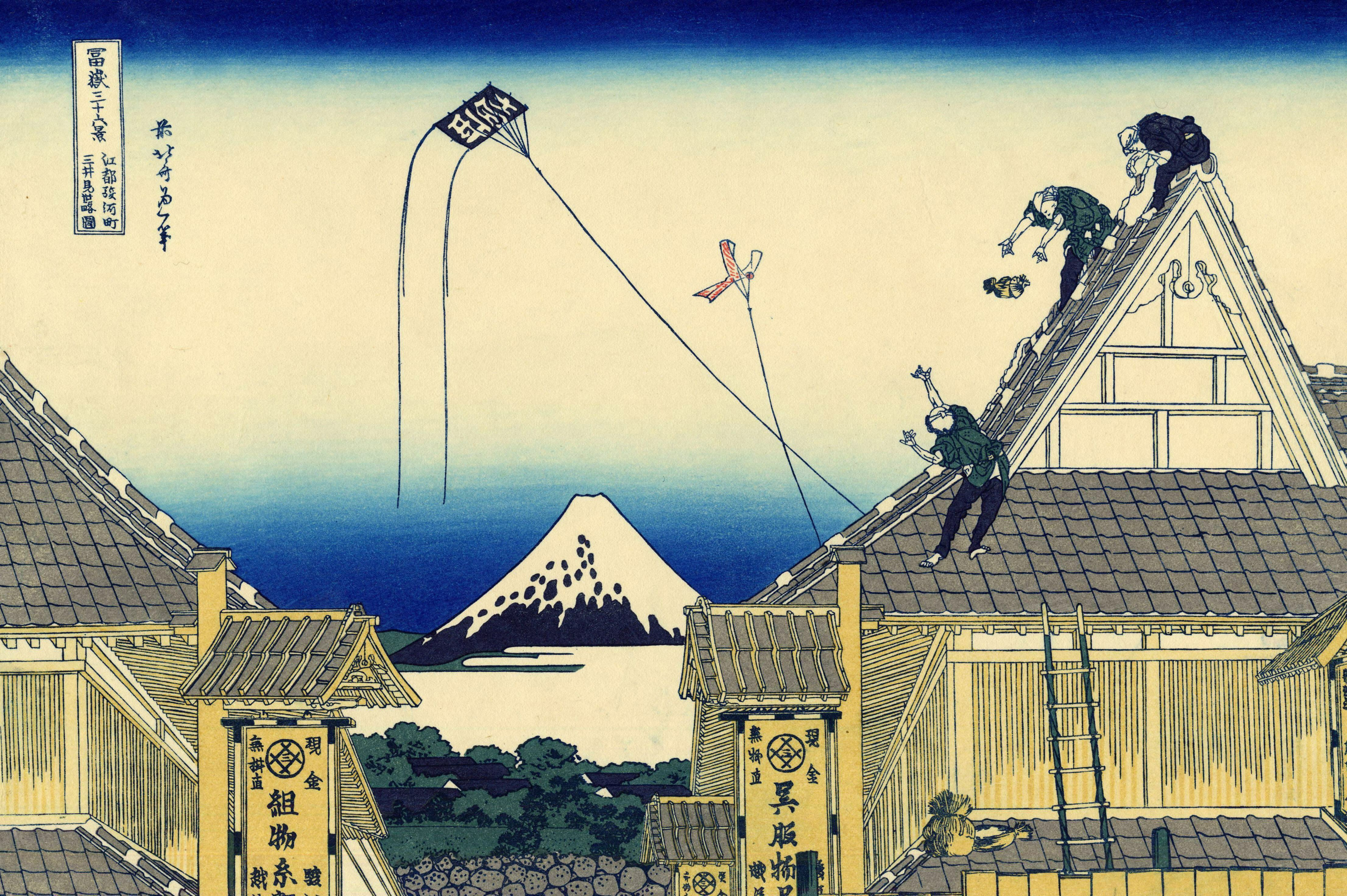 Part of the series Thirty-six Views of Mount Fuji, no. 02.